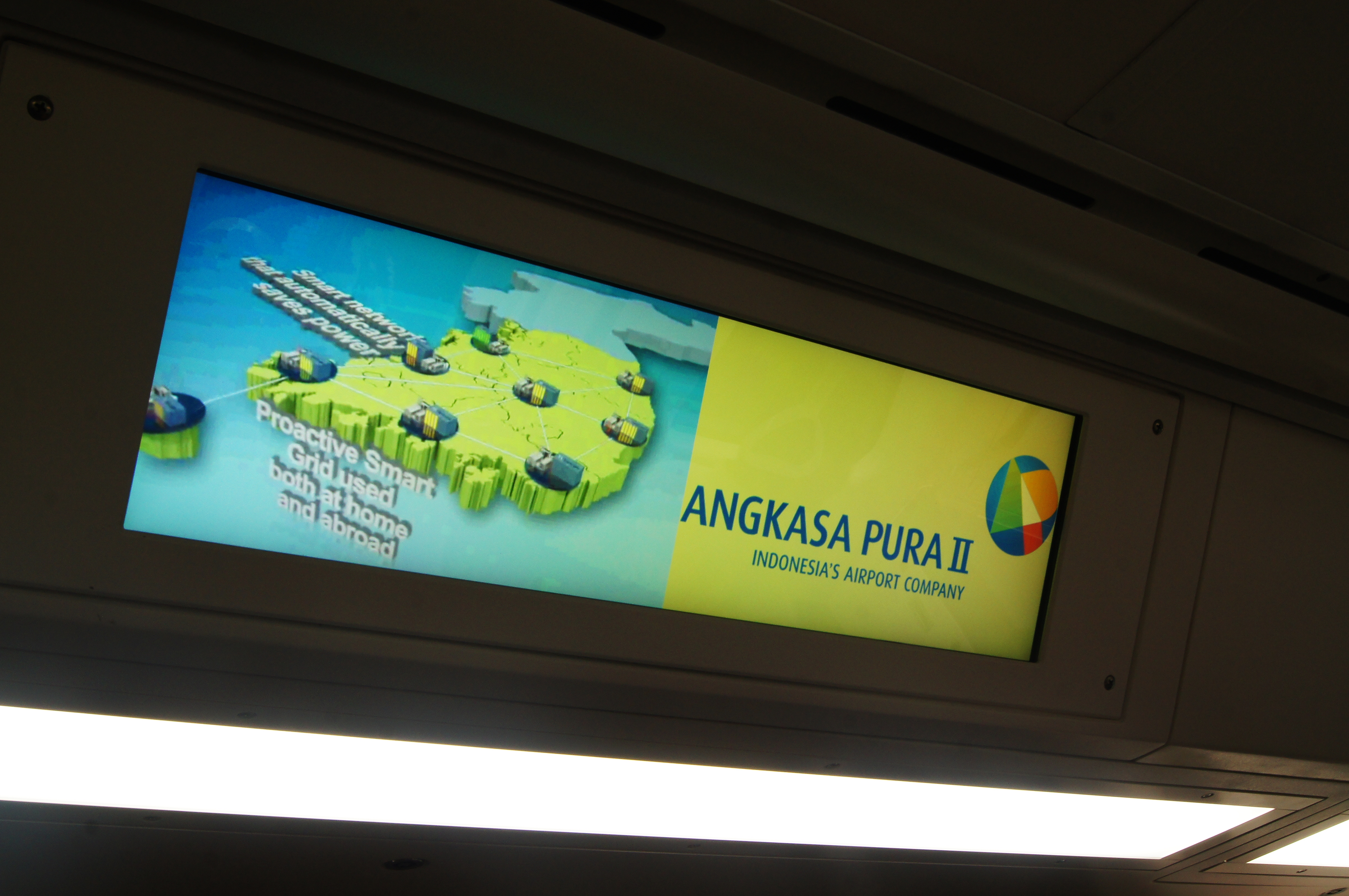 Capable of displaying ads. As of now, they are yet to be utilised by third party advertising agents